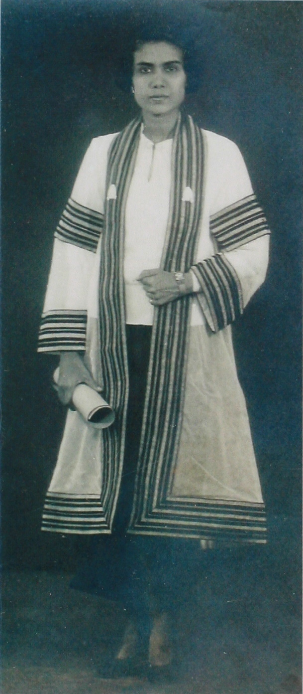 Professor Thanphuying Poonsapaya Navawongs na Ayudhya, wearing the academic dress of Chulalongkorn University, probably from her graduation in 1931.